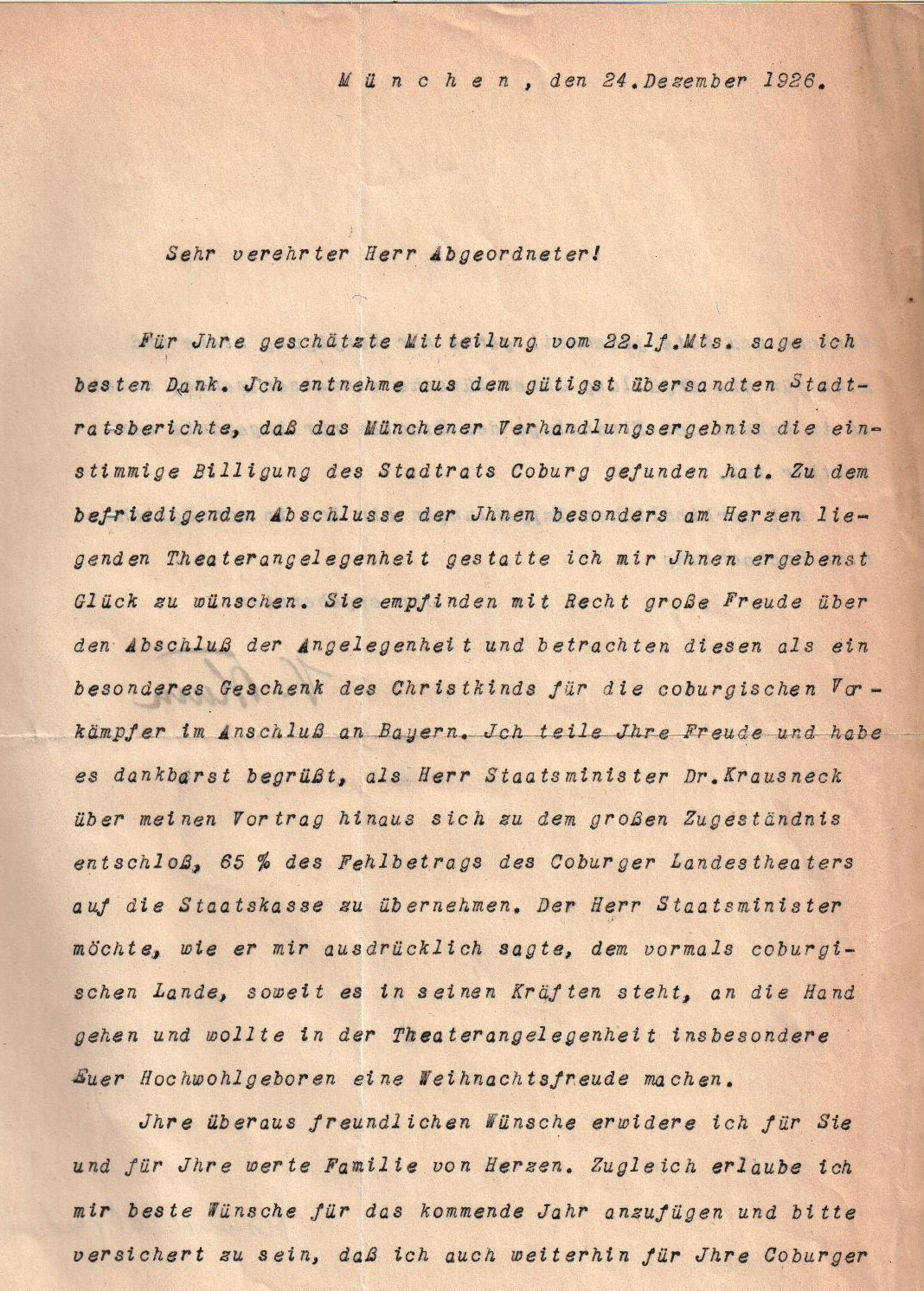 Letter to Franz Klingler 1926